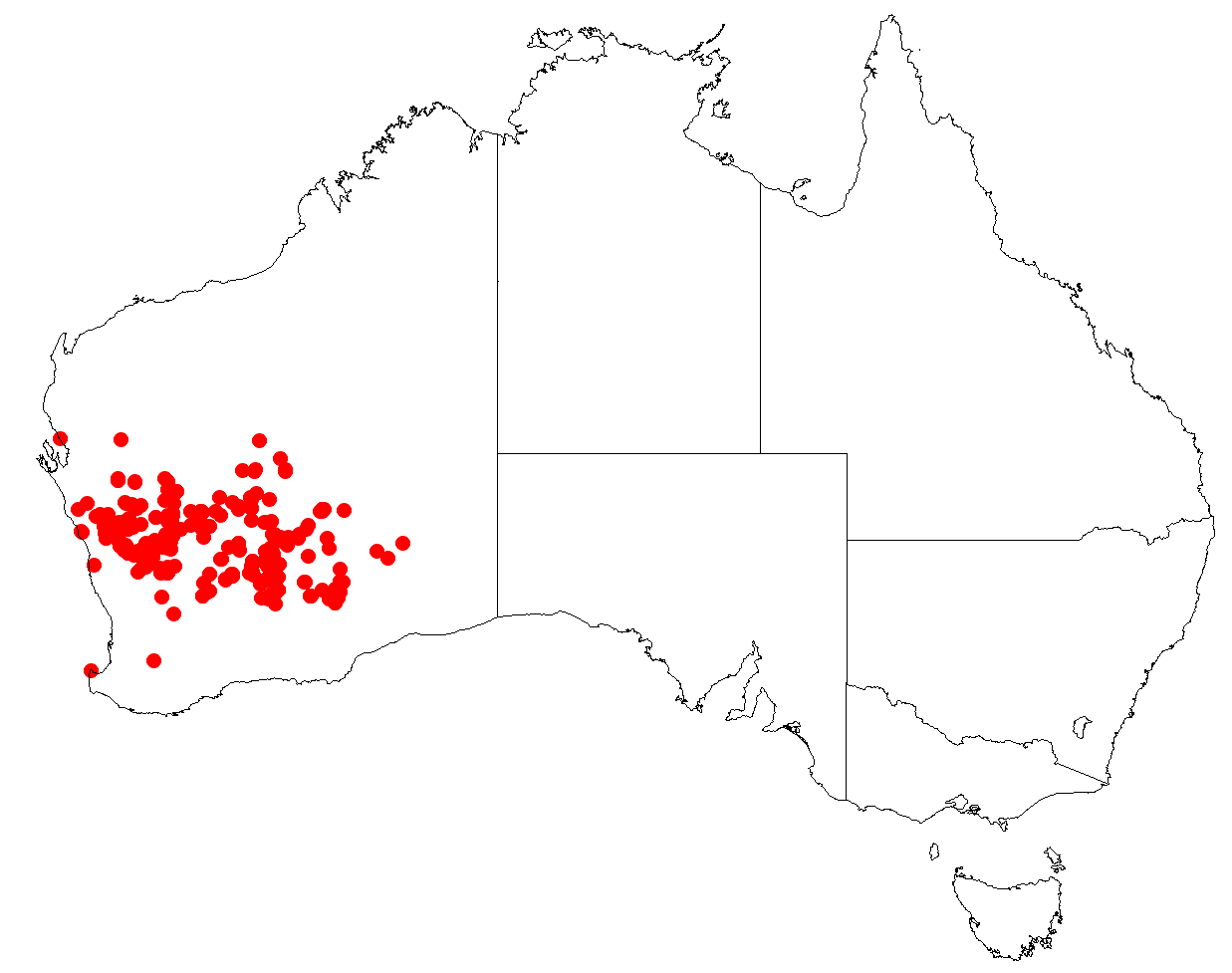 Velleia rosea occurrence data downloaded from Australasian Virtual Herbarium on July 5, 2018